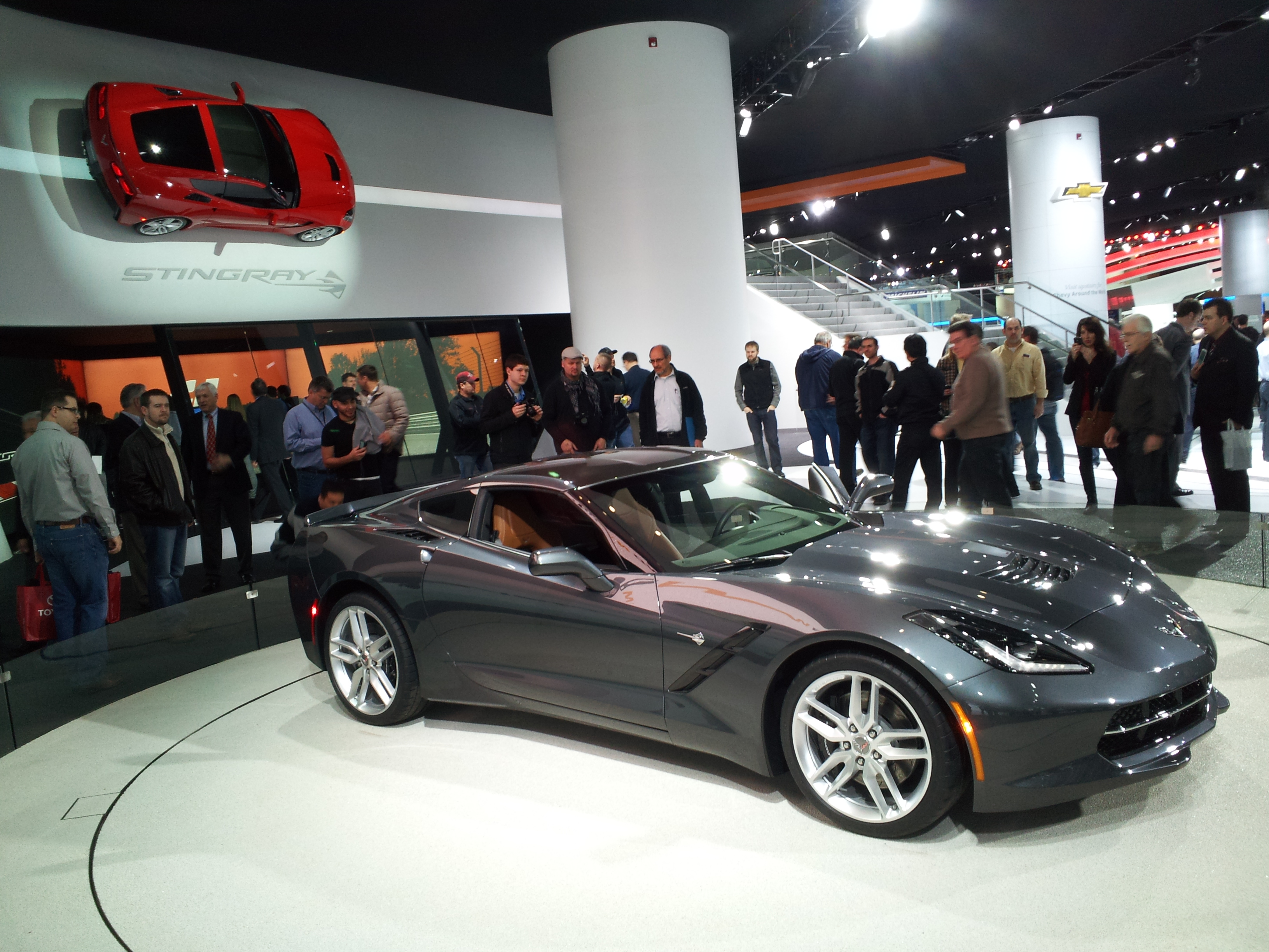 My personal photo of the 2014 Corvette Coupe announcement at the North American International Auto Show January 17, 2013. Shows a right front view of a Cyber Gray coupe on a turntable with a Torch Red Coupe hanging on the wall behind it.